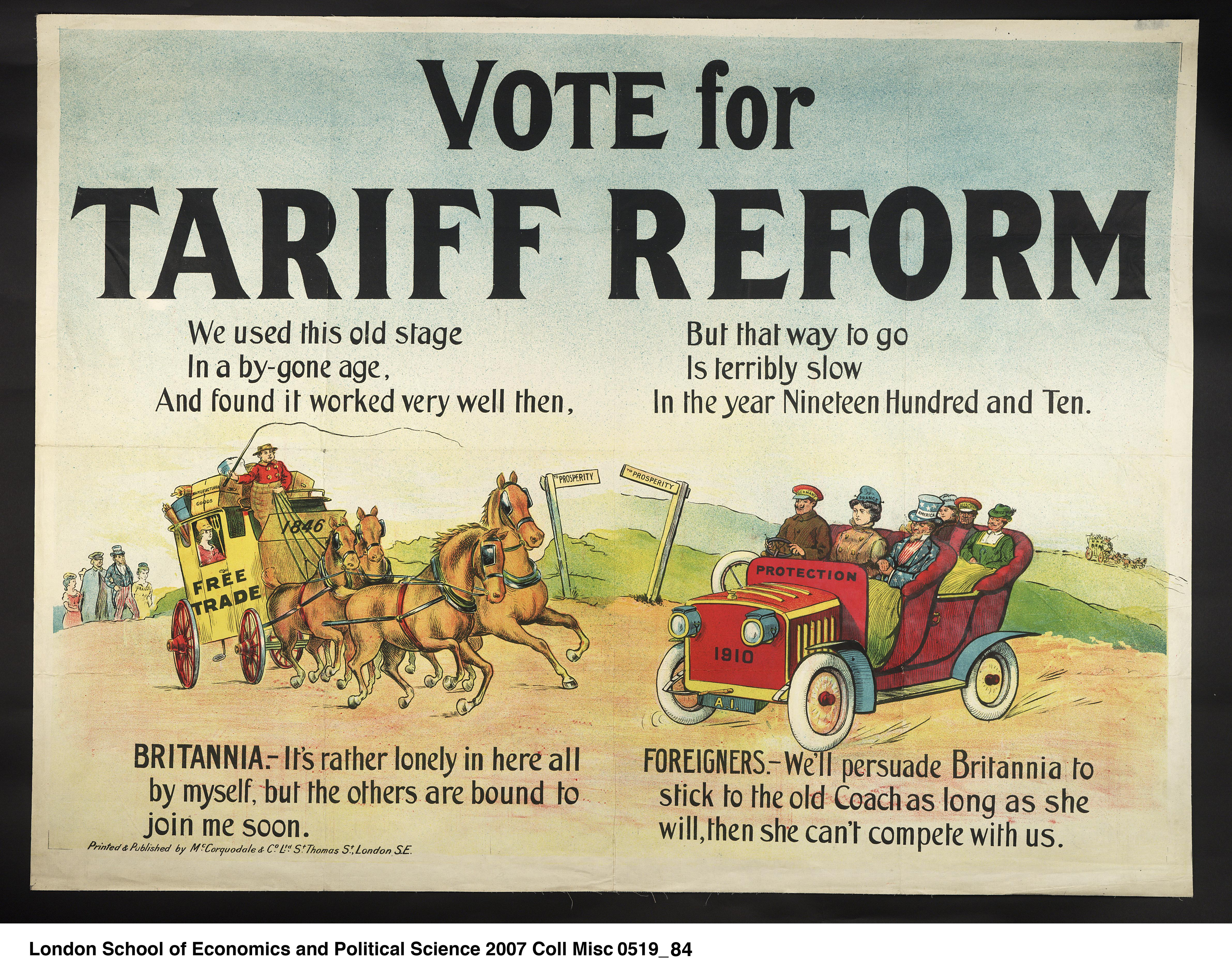 Lithographs showing Brittania sitting alone in a stagecoach named "Free Trade; 1846" on the road to Prosperity, waiting to be joined by the figures representing Germany, France, Austria, USA, Switzerland and Russia which are standing on a hill behind the coach. The accompanying picture shows the foreign nationals sharing a car called "Protection; 1910", also on the road to Prosperity, leaving the stagecoach far behind. Artist: Unknown Printer: McCorquodale and Co Ltd Publisher: Printer Place of Production: London Date: c1905-c1910 Persistent URL: misc 0519/84')